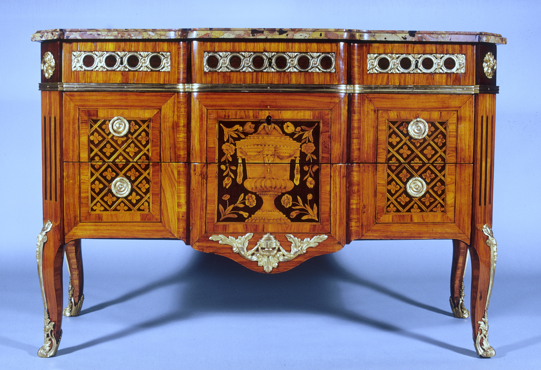 This commode bears the stamp of François Gaspard Teuné, who became a master "ébéniste" (cabinetmaker) in 1766 and often received commissions from the count of Artois, brother of King Louis XVI. In style, the piece represents the transition from Rococo to Neoclassicism. The front is divided into a central section inlaid with an urn and two lateral sections with a trellis pattern, known as "marqueterie à la Reine."